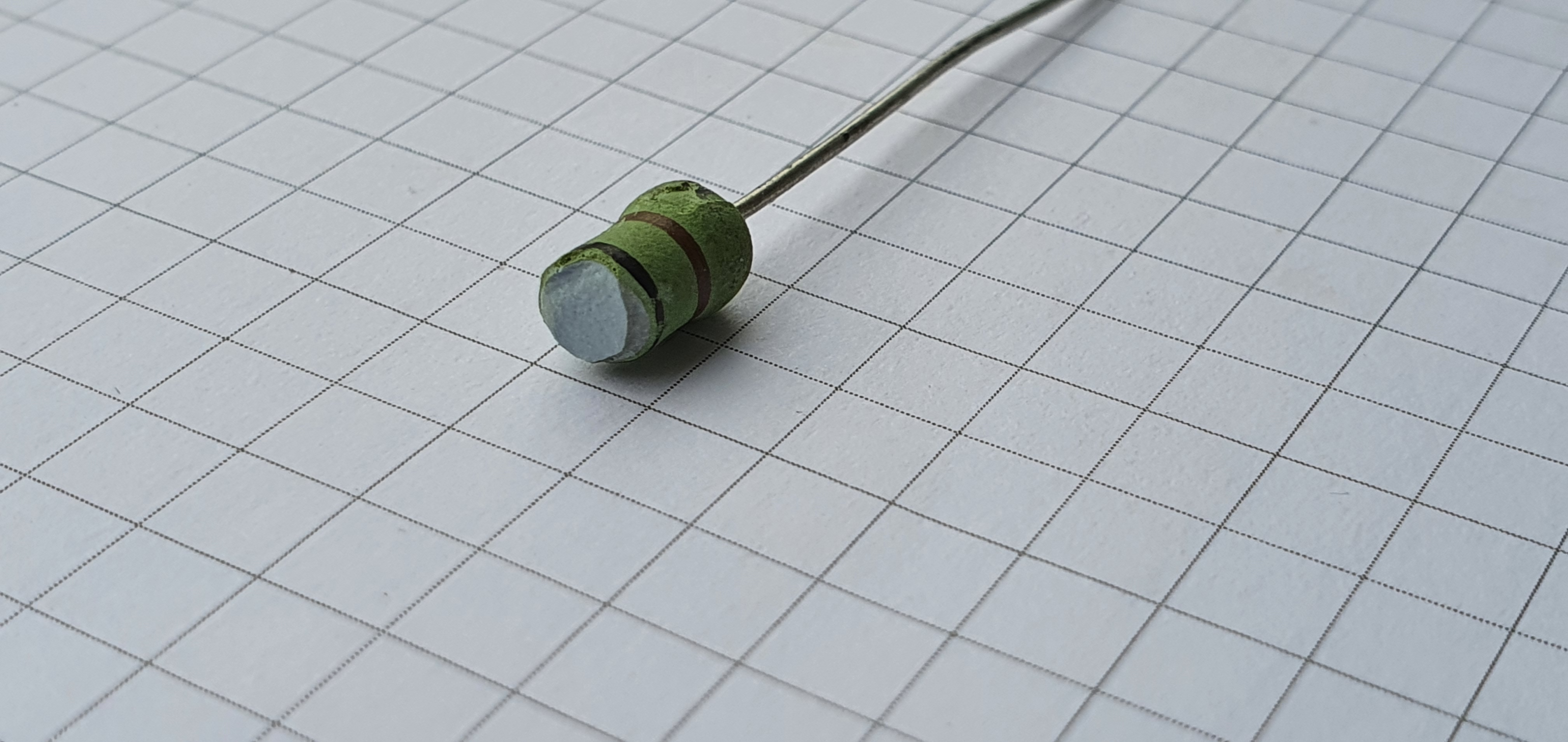 Picture of a broken ceramic composition resistor which shows the cross section.